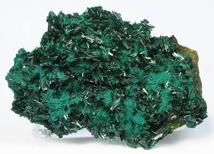 Atacamite Locality: La Farola Mine, Cerro Pintado, Las Pintadas district, Tierra Amarilla, Copiapó Province, Atacama Region, Chile (Locality at ) Size: 7.5 x 4.9 x 1.5 cm. A fine and beautiful plate richly covered with lustrous atacamite crystal pinwheels. The lustrous, gemmy, dark green radiating blades nicely compliment the lighter green needles on this piece from the Type Locality region - the La Farola Mine in the Atacama Region of Chile. Ex. Jaime Bird Collection.